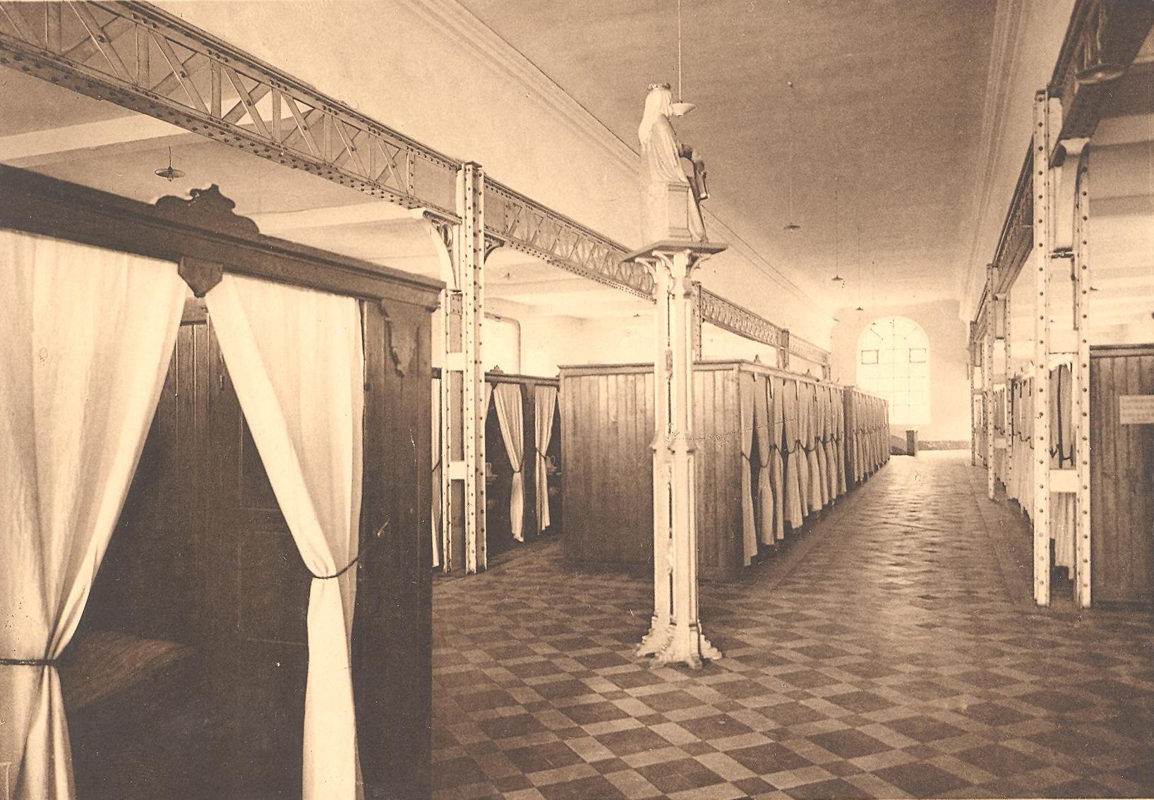 Bonne-Espérance Abbey, Vellereille-les-Brayeux (Belgium), « Notre-Dame » dormitory, part of the Minor Seminary.